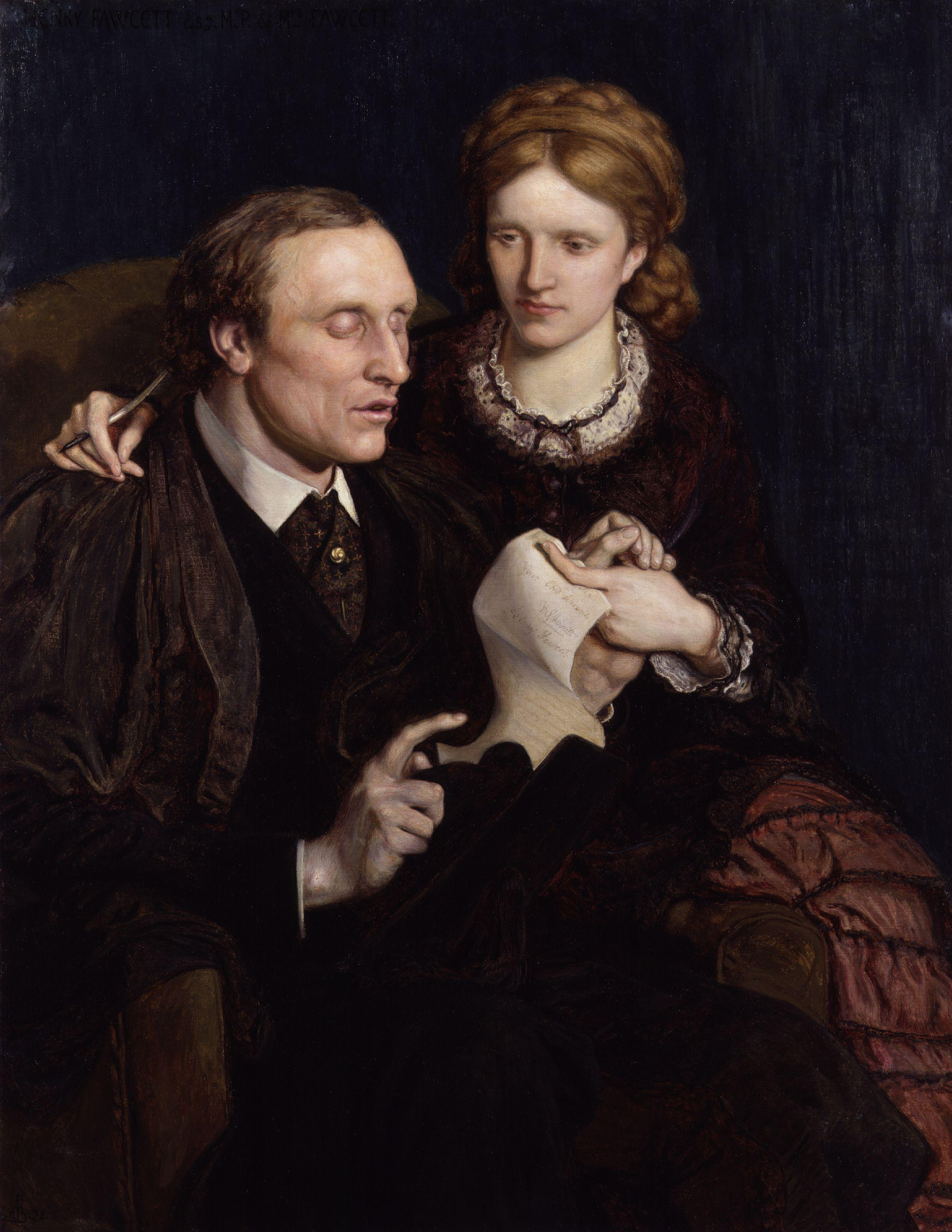 Henry Fawcett; Dame Millicent Garrett Fawcett (née Garrett), by Ford Madox Brown (died 1893). All images in this batch have been confirmed as author died before 1939 according to the official death date listed by the NPG.